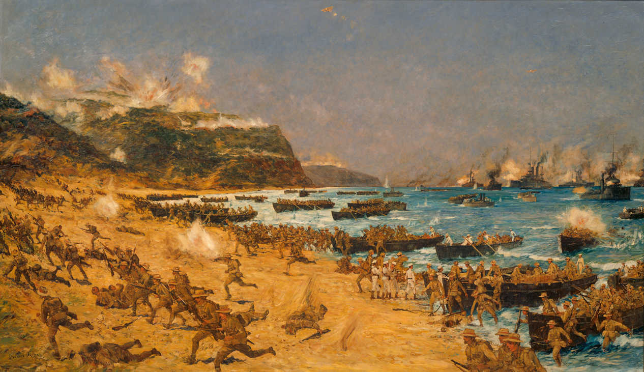 New Zealand troops were part of the Allied invasion force that landed at what soon became known as Anzac Cove. For eight long months New Zealanders, Australians and troops from Britain and France battled harsh conditions and resolute Ottoman opponents who were desperately fighting to protect their homeland. By the time the campaign ended, some 125,000 men had died: more than 80,000 Ottoman Turks and 44,000 Allied soldiers, including 8500 Australians and 2721 New Zealanders (about a fifth of those who landed on the peninsula). In the history of the Great War, the Gallipoli campaign made no large mark. The number of dead, although horrific, paled in comparison with the casualties in France and Belgium. But for New Zealand, Australia and Turkey, the Gallipoli campaign left a lasting impression on the national psyche. (Source: NZHistory, This painting is part of the National Collection of War Art held by Archives New Zealand. The National Collection of War Art is composed of about 1,500 artworks, including portraits, battle scenes, landscapes and abstracts, depicting those who served New Zealand in times of war, and the arenas in which they served. It includes both official pieces of war art, by artists formally commissioned by the New Zealand government, and other unofficial art works that were acquired by or donated to the collection. The majority of artworks in the collection depict World War One and World War Two, however official war art continues to be commissioned by the New Zealand Defence Force up to the present day. Archives Reference: The landing at Anzac, 1915, Charles Dixon, AAAC 898 NCWA Q388 Charles Dixon (1872-1934) was an English artist who specialised in marine scenes, working in both oils and watercolours. He is probably best known for his depictions of activity on the Thames River in London, but he is also known for his paintings of major events in maritime history.